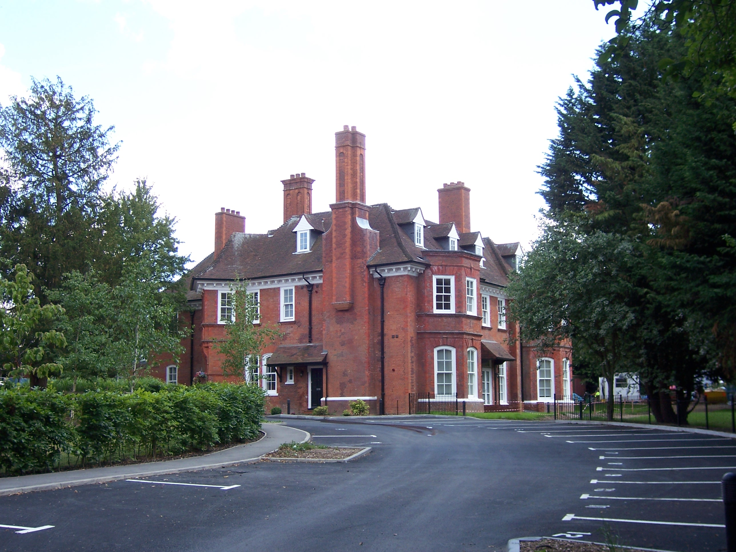 Highgrove House in Eastcote